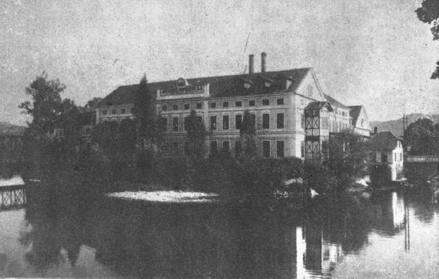 Papirnica Vevče